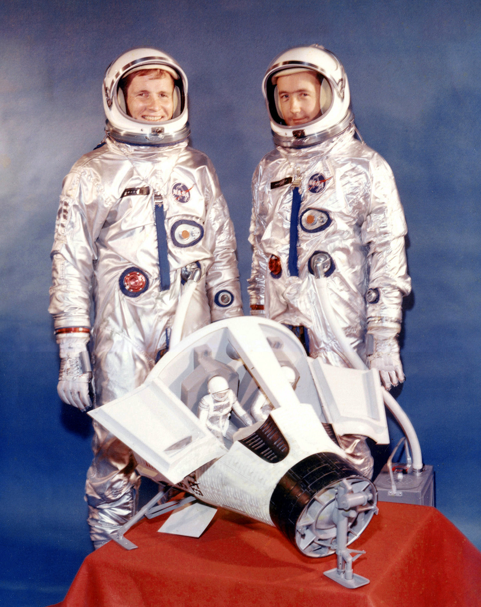 Astronauts Edward H. White II (left), Gemini-Titan 4 pilot; and James A. McDivitt, command pilot.